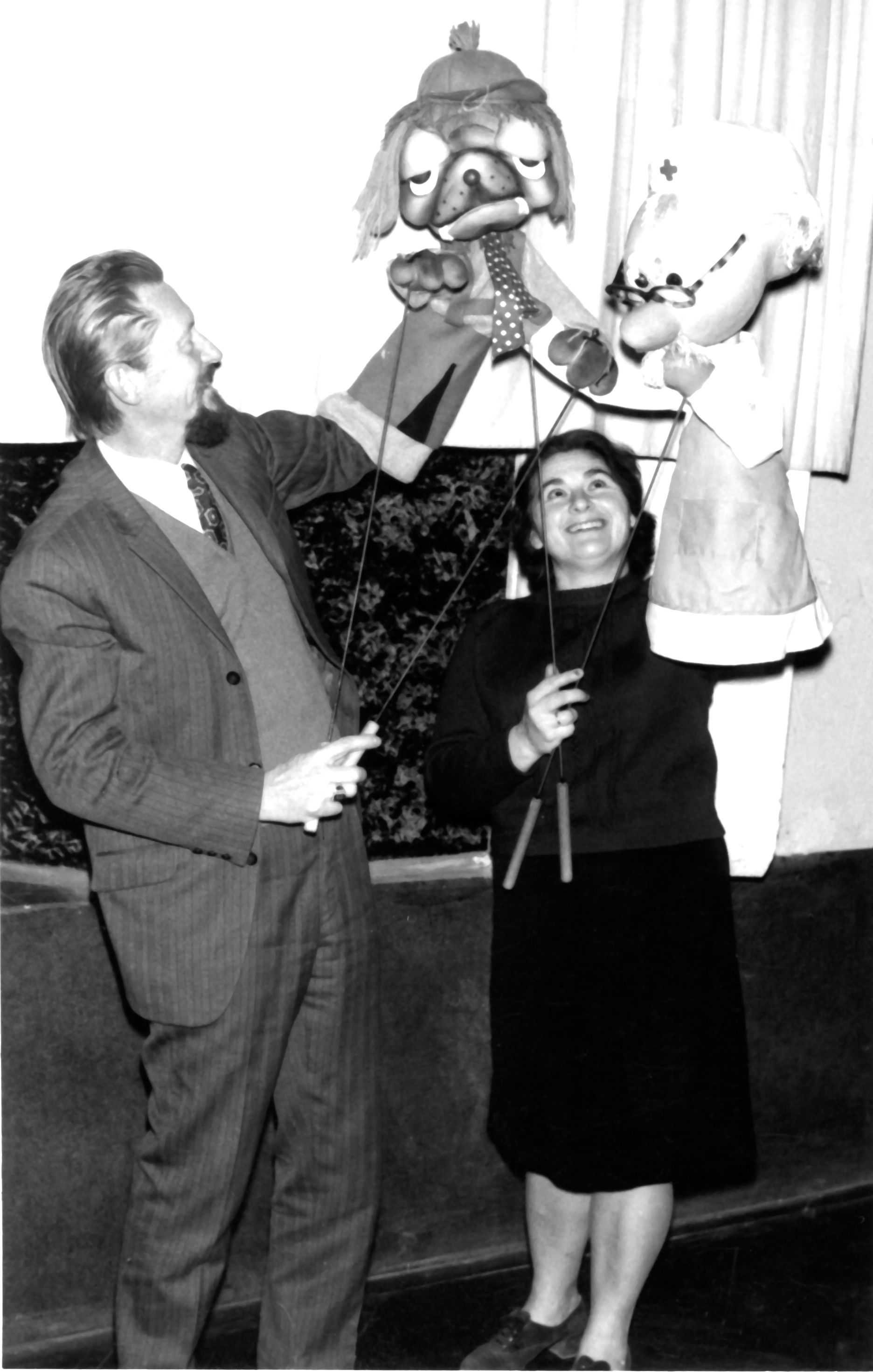 Šandor Hartig with his wife Gizella, puppeteers Srpski (latinica): Šandor Hartig sa suprugom Gizelom, lutkari Српски (ћирилица): Шандор Хартиг са супругом Гизелом, луткари